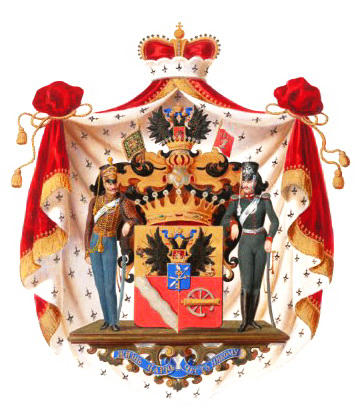 Coat of Arms of Vasilchikov family